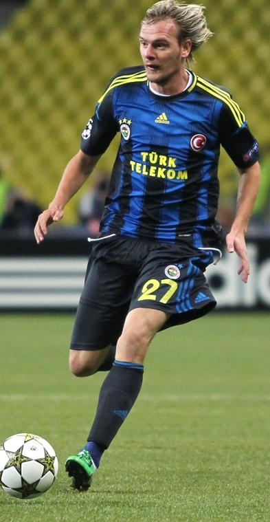 Miloš Krasić playing for Fenerbahçe in 2012.